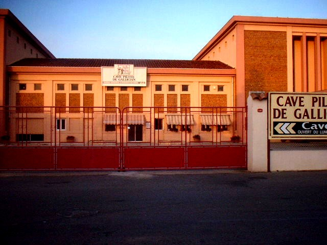 Views of Gallician - a small village near Vauvent in Southern France - Not far from Nimes.